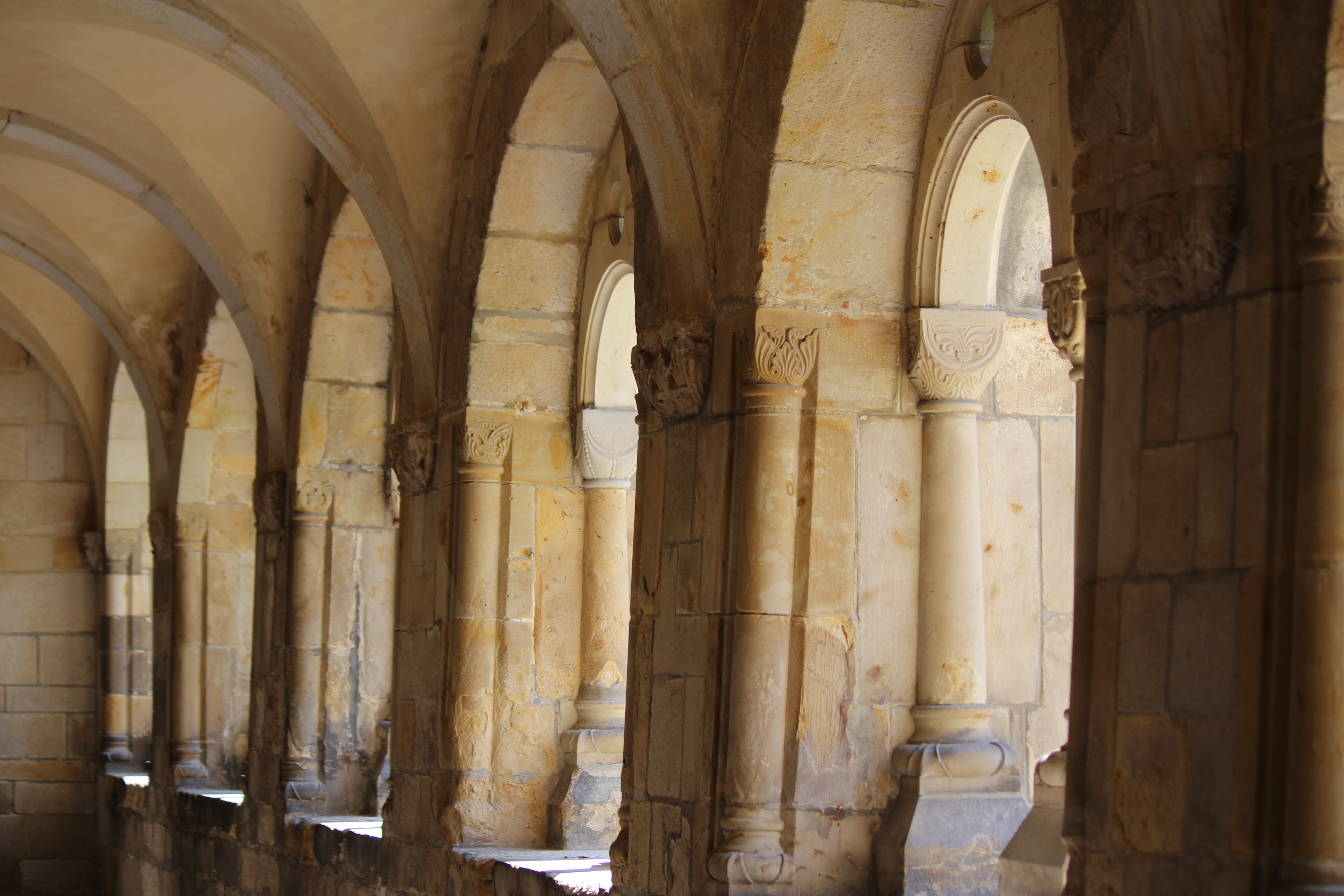 Church of St. Cyriacus (Gernrode, Saxony-Anhalt, Germany)